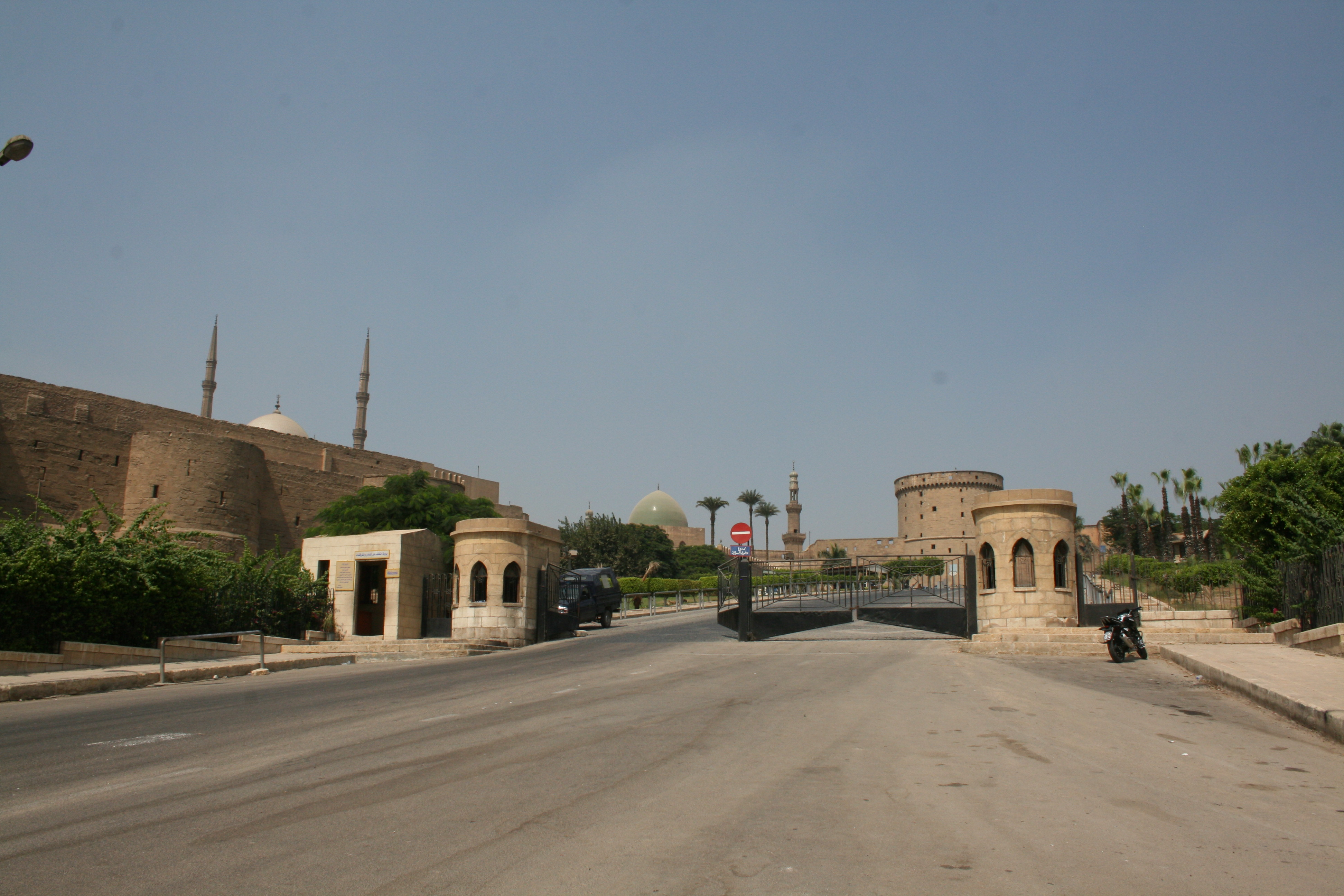 Citadel, Cairo, Egypt